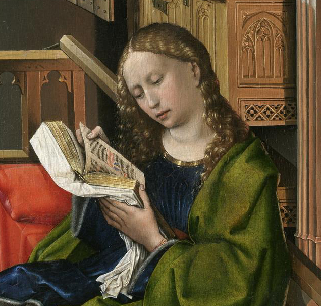 Werl-Triptychons, Prado Museum: Saint Barbara